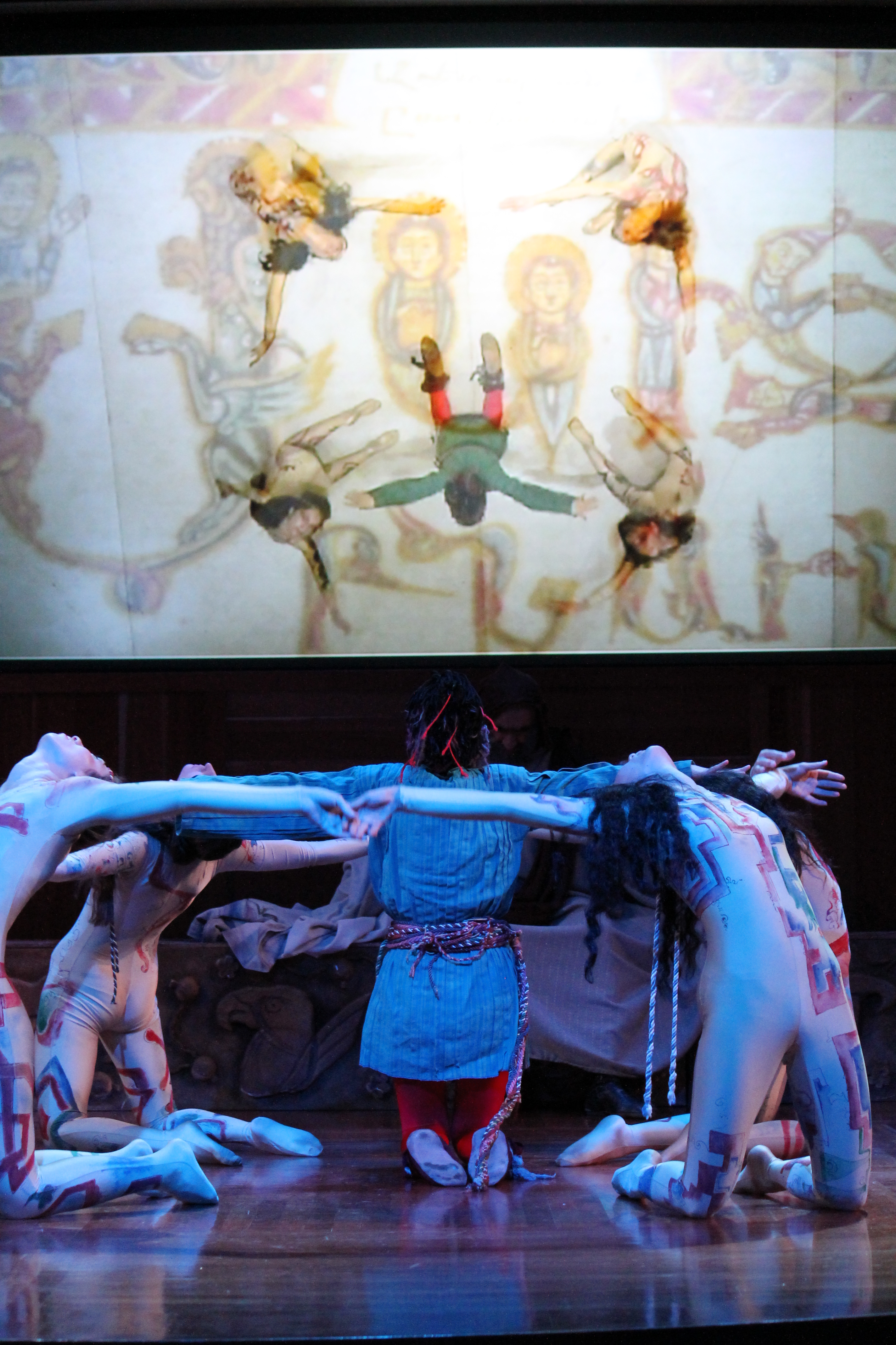 A scene from Yerevan State Pantomime Theatre performance "Book of Flowers" in Los Angeles Central library on October 06, 2012